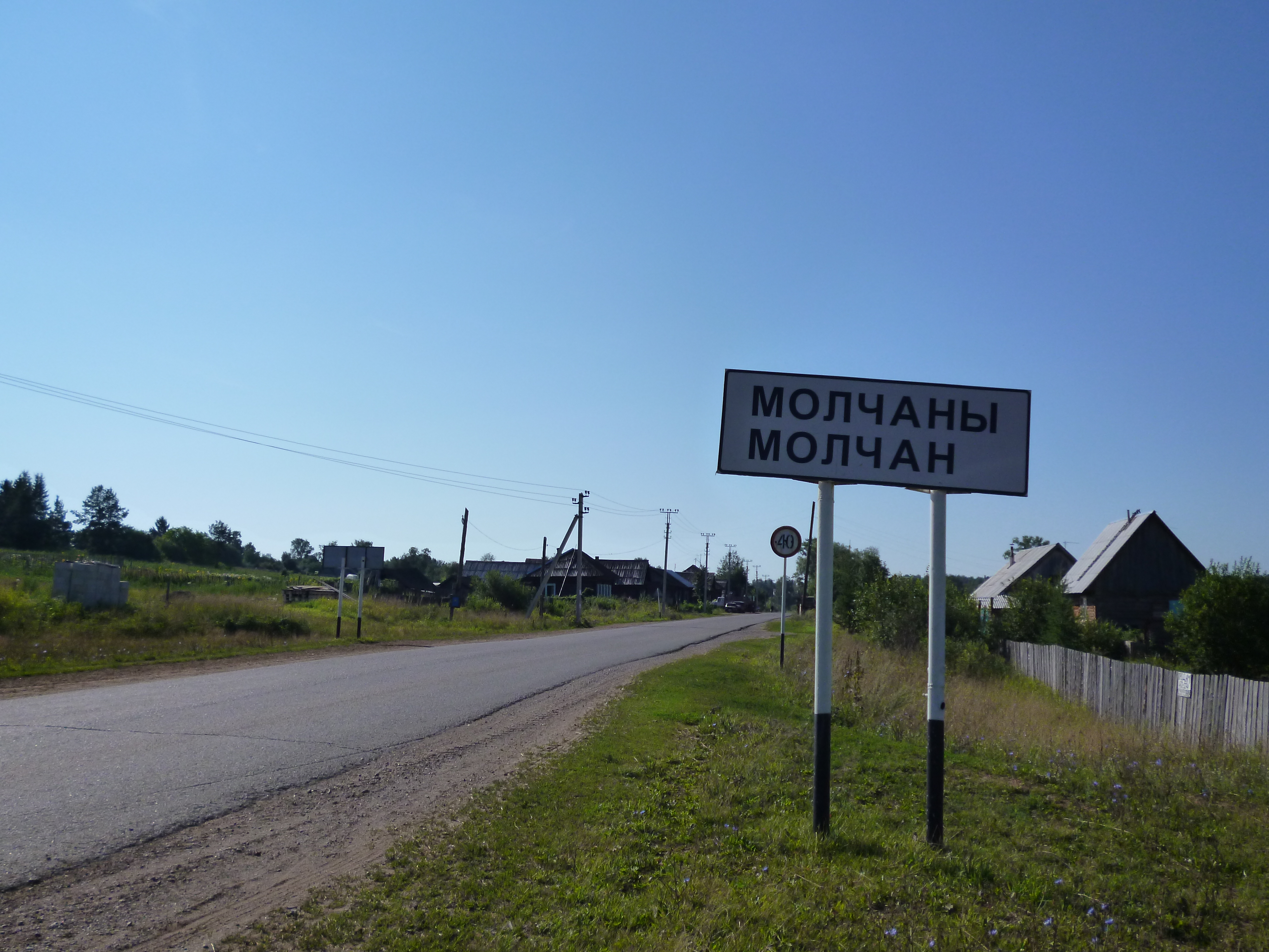 Molchany